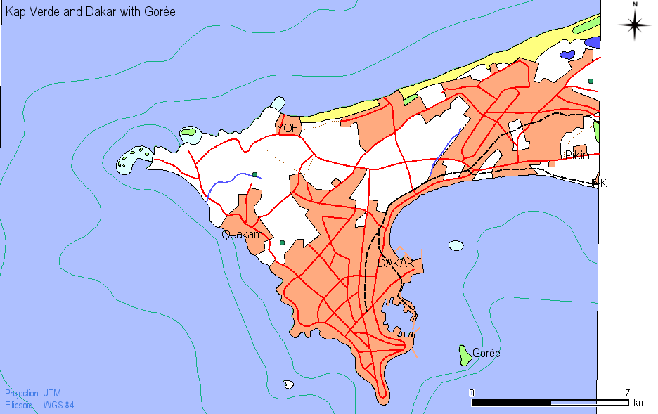 Map of Dakar (Kap Verde peninsula)